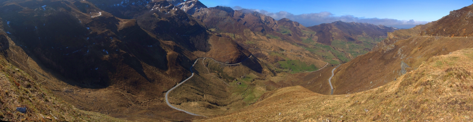 Portillo de Lunada (Cantabria, España). Miera valley.